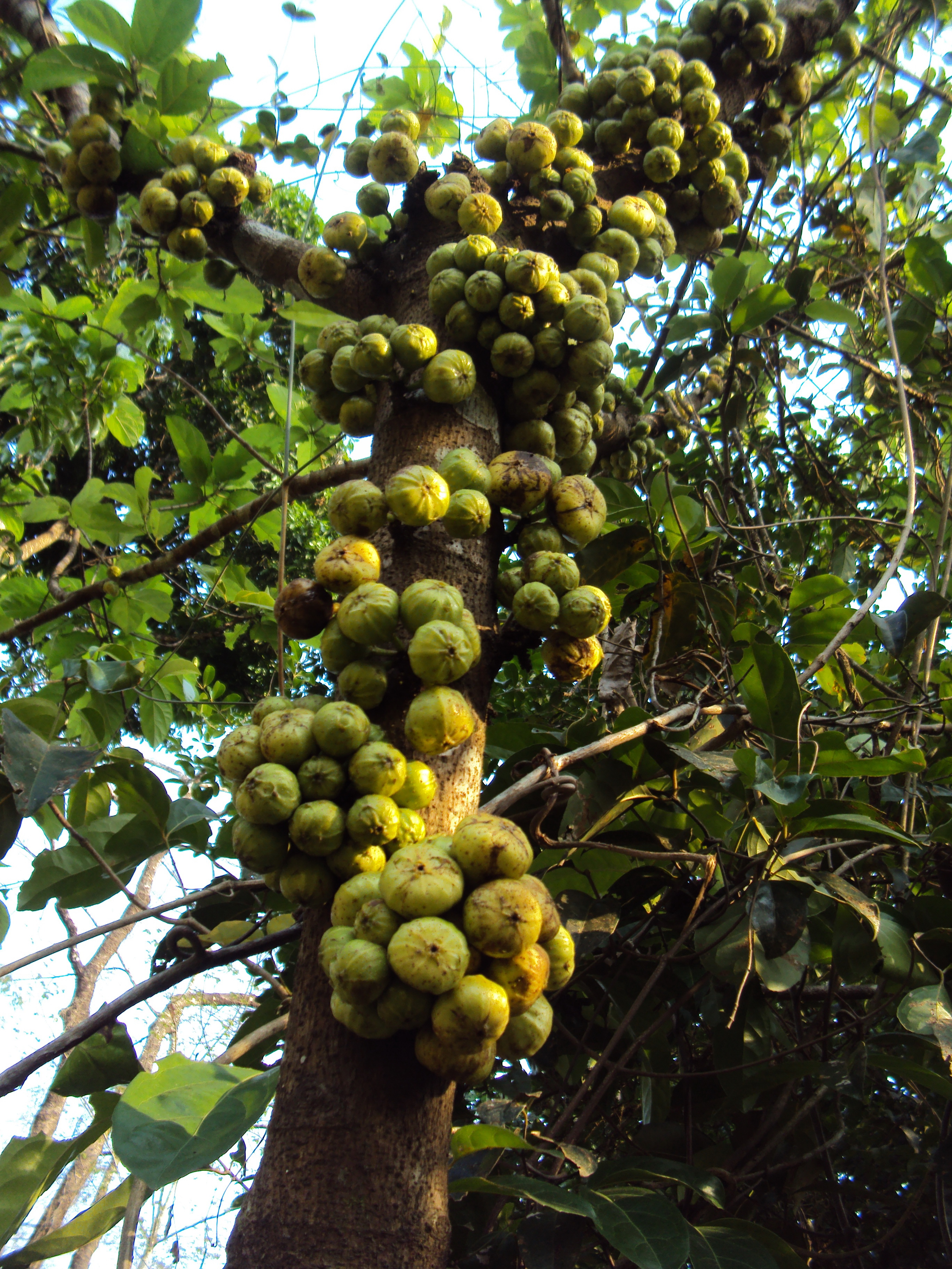 ficus hispida